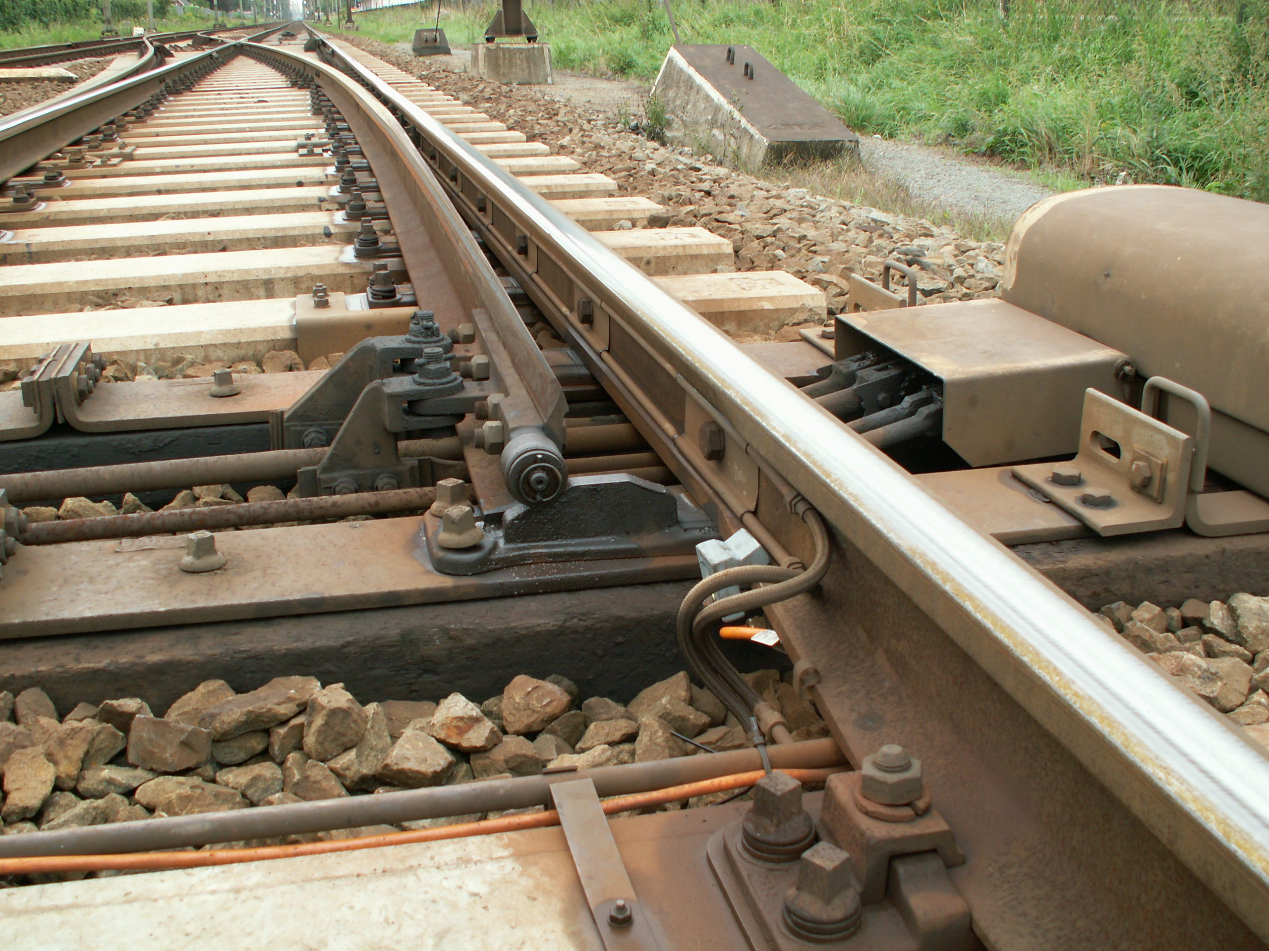 Point heating.